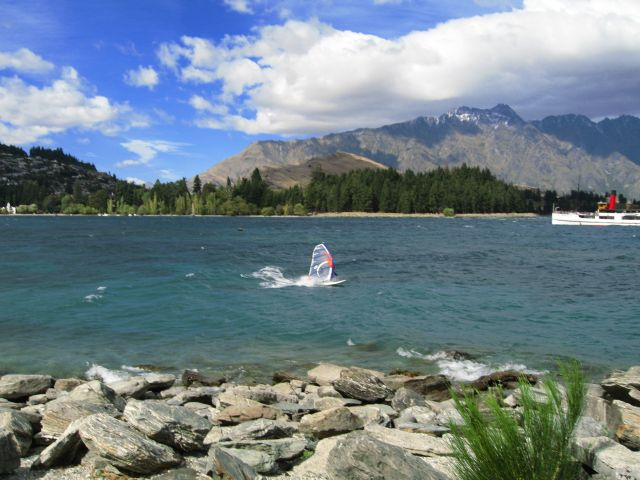 Watersports on Lake Wakatipu